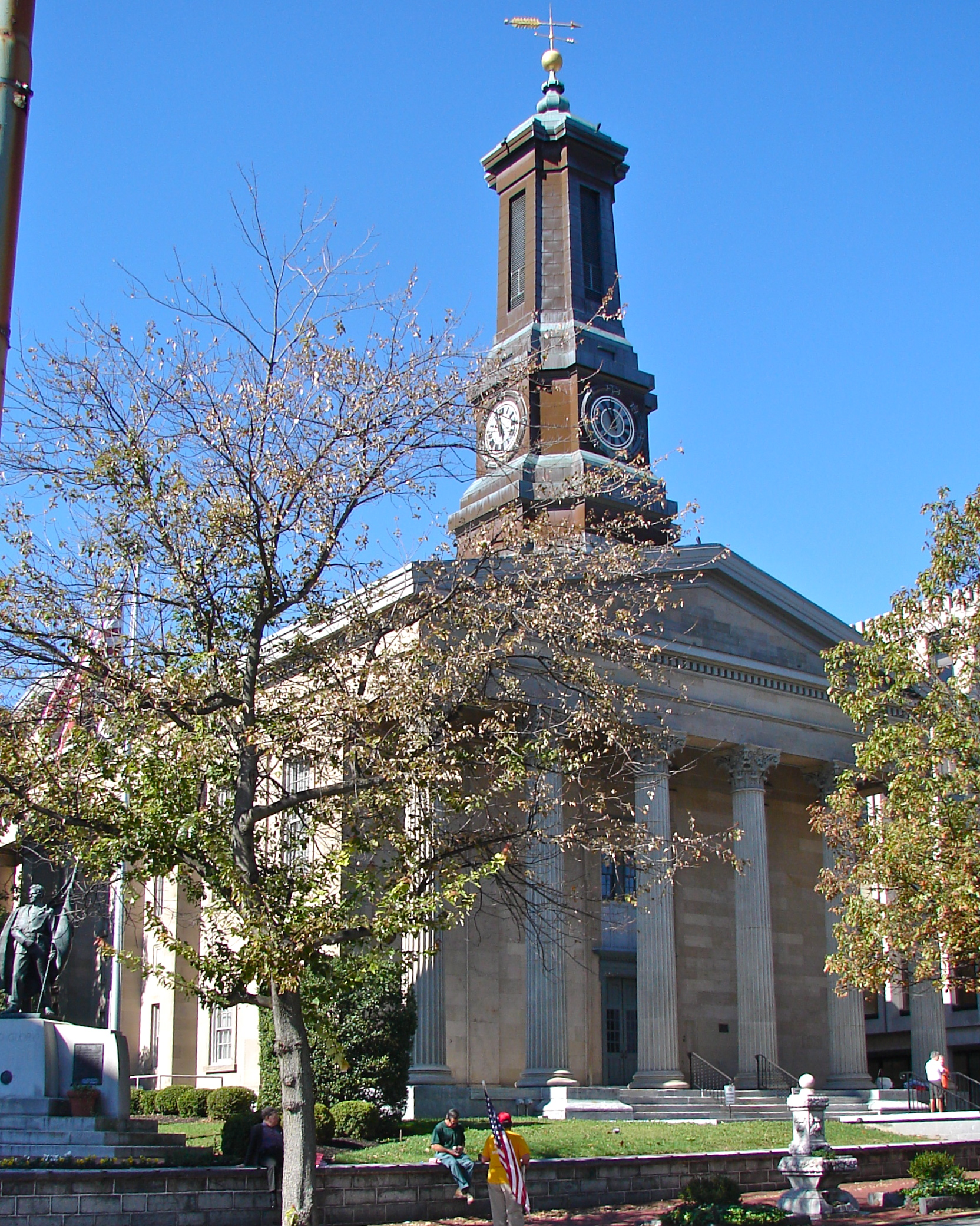 Chester County Courthouse on the NRHP since June 5, 1972, also in the West Chester Downtown Historic District on the NRHP. At 10 North High Street, West Chester, Pennsylvania. Architect Thomas U. Walter. Built 1840s.